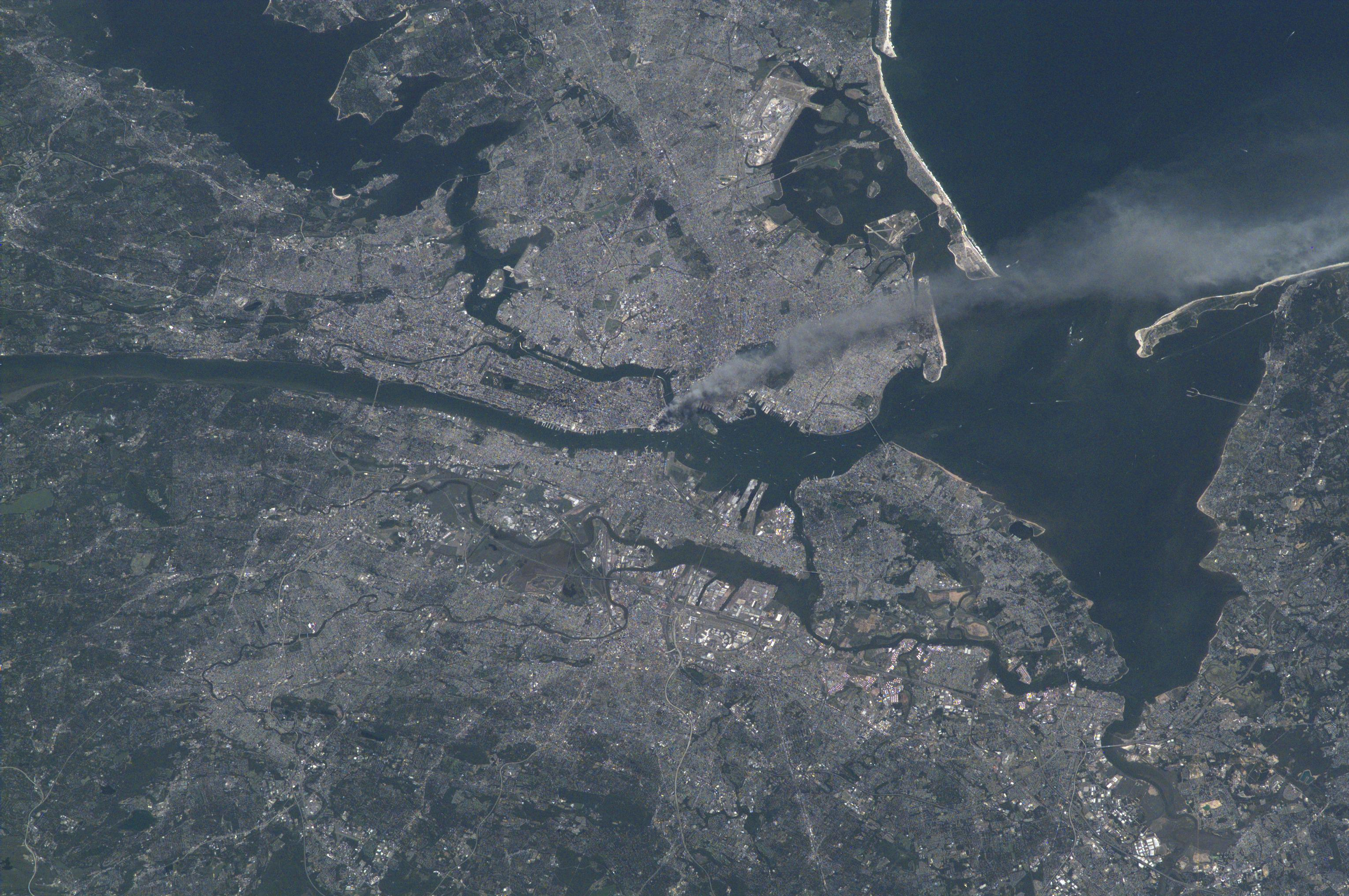 "The world changed today. What I say or do is very minor compared to the significance of what happened to our country today when it was attacked." So said Expedition 3 Commander Frank L. Culbertson, upon learning of the September 11, 2001 attack on the World Trade Center. This image is one of a series taken that day of metropolitan New York City by the International Space Station's Expedition 3 crew that shows a plume of smoke rising from the Manhattan skyline. Upon further reflection, Commander Culbertson said, "It's horrible to see smoke pouring from wounds in your own country from such a fantastic vantage point. The dichotomy of being on a spacecraft dedicated to improving life on the earth and watching life being destroyed by such willful, terrible acts is jolting to the psyche, no matter who you are."